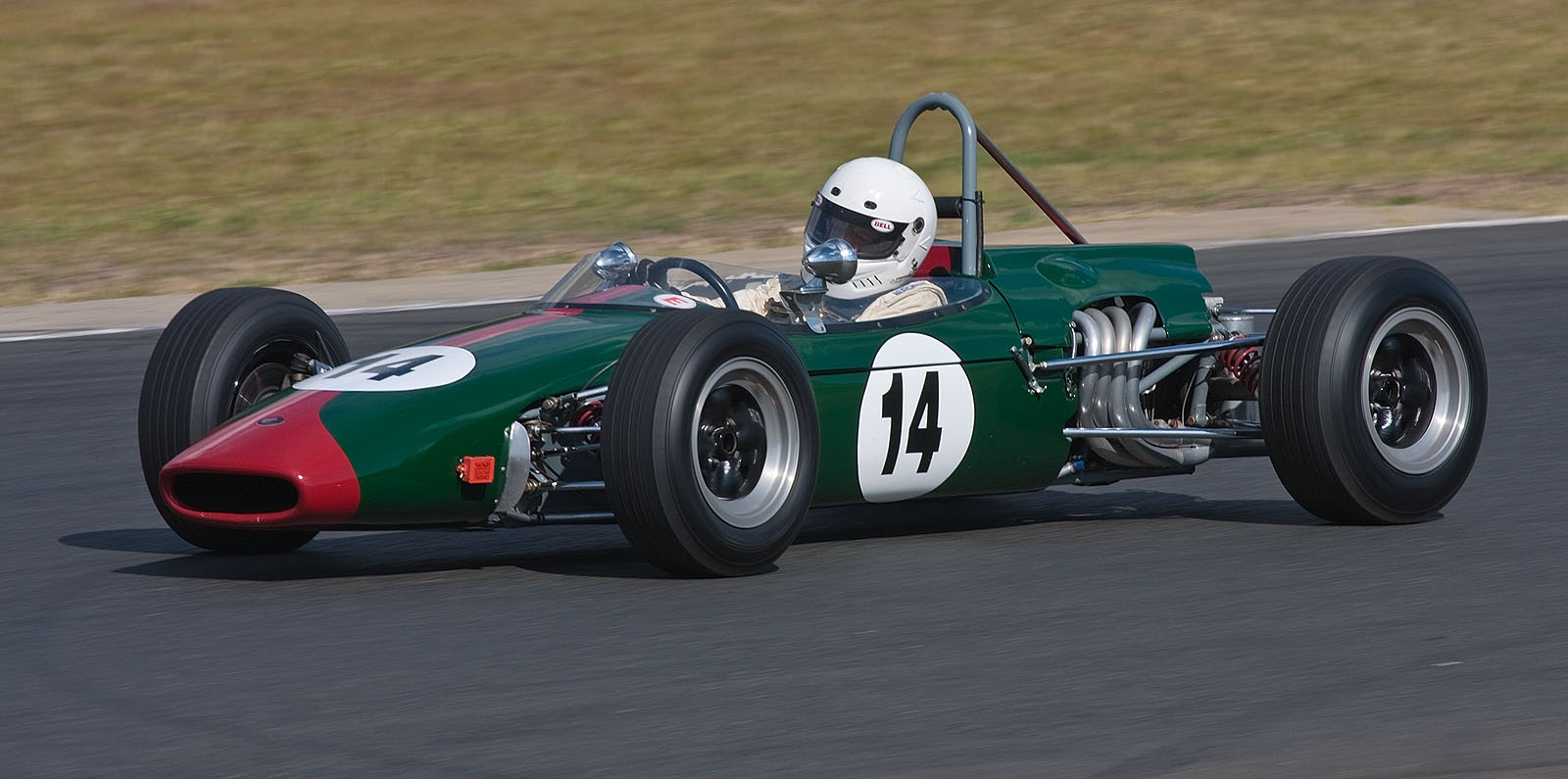 Historic Racing, Eastern Creek, Australia 2&3 May 2009 14 Richard Longes 1965 Brabham BT 14 IMG_7376